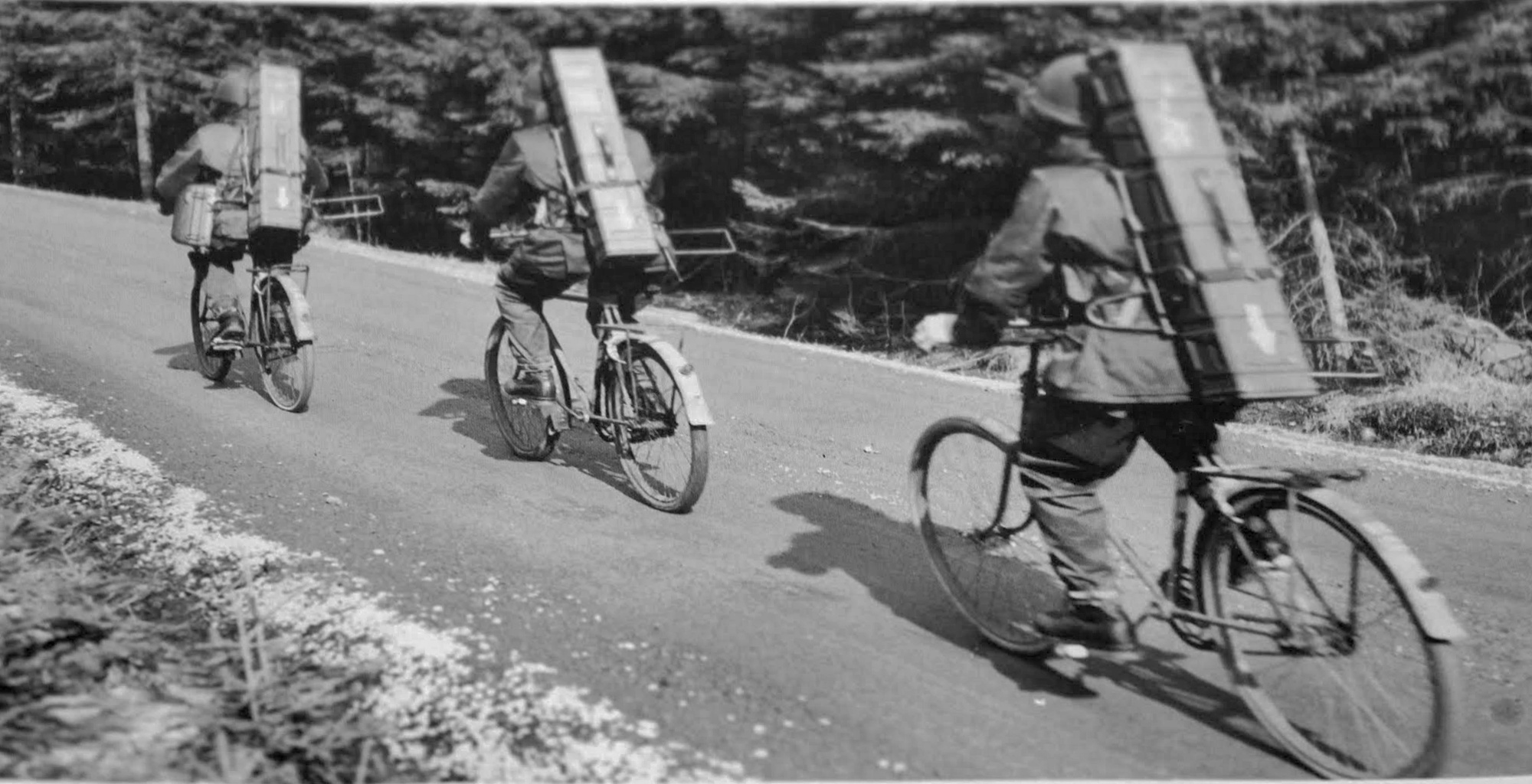 Three Swedish bicycle infanterists armed with m/45 SMGs and Bantam anti-tank missiles.